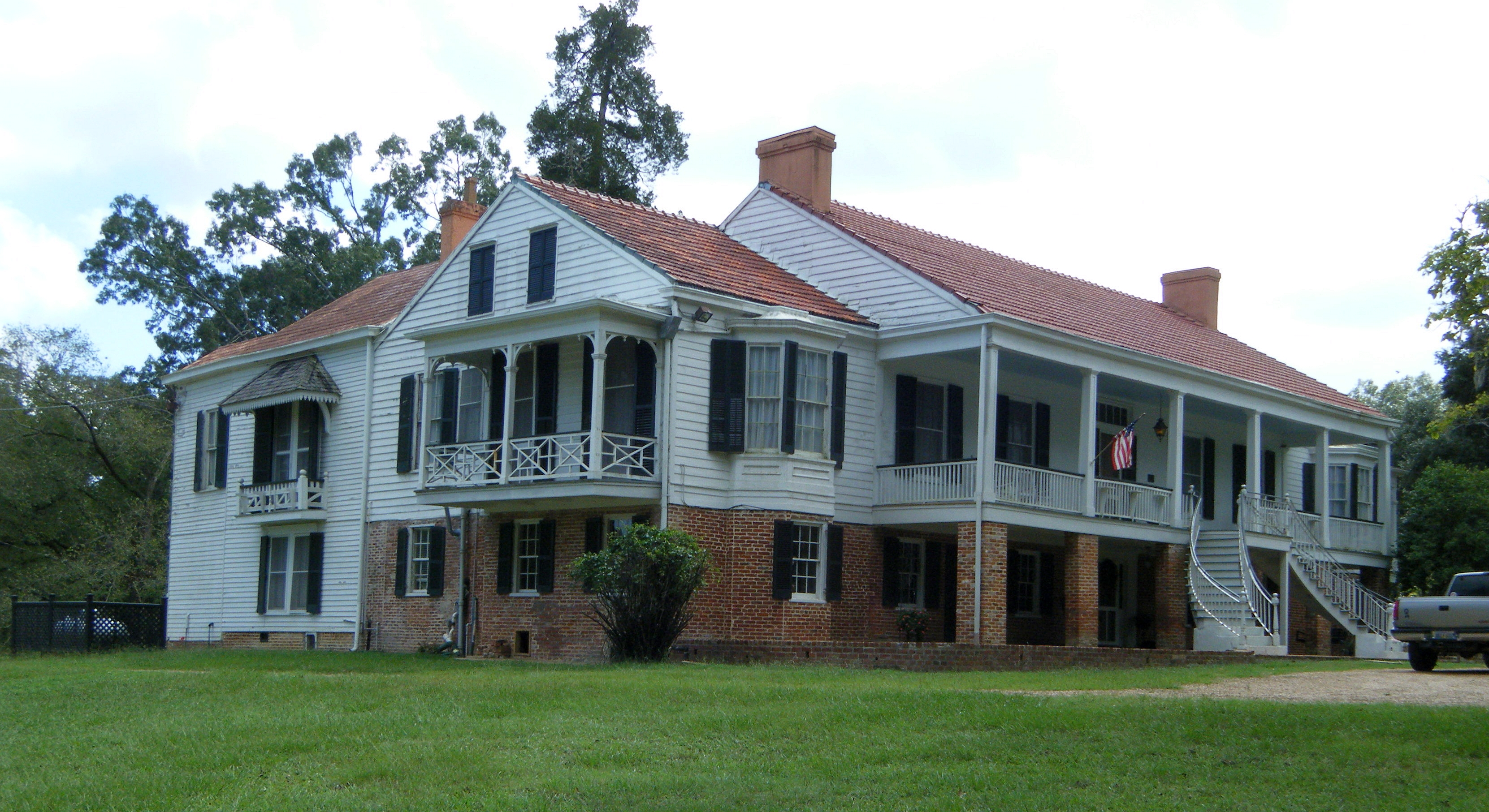 Cherry Grove Plantation near Natchez, Mississippi